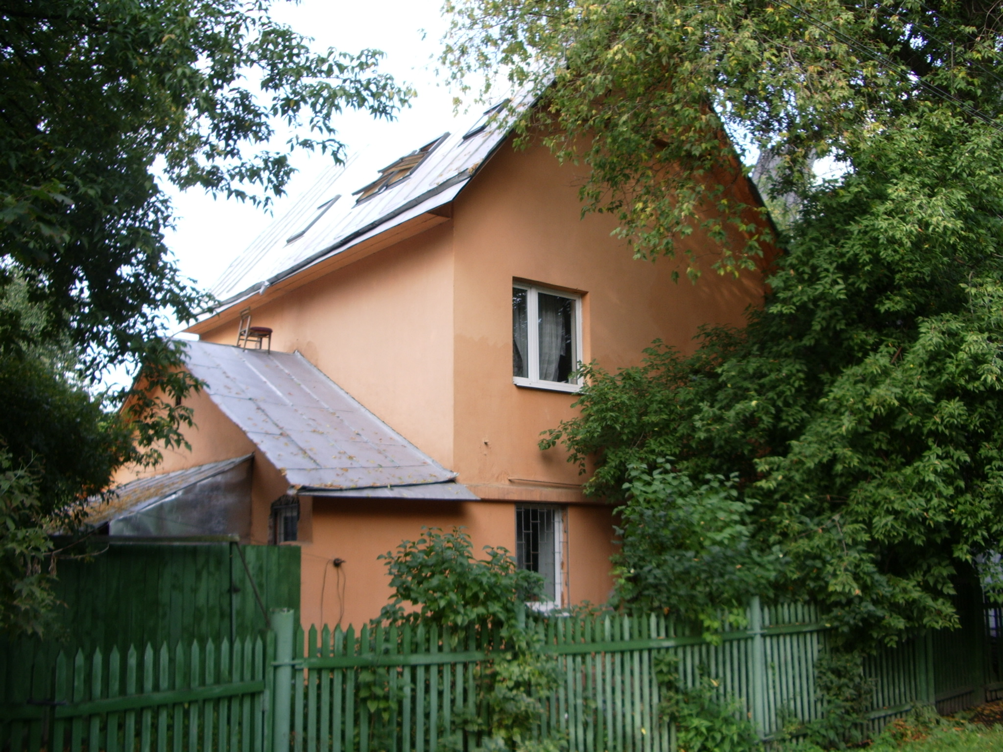 Savrasova street, 5. Sokol Settlement in Moscow.